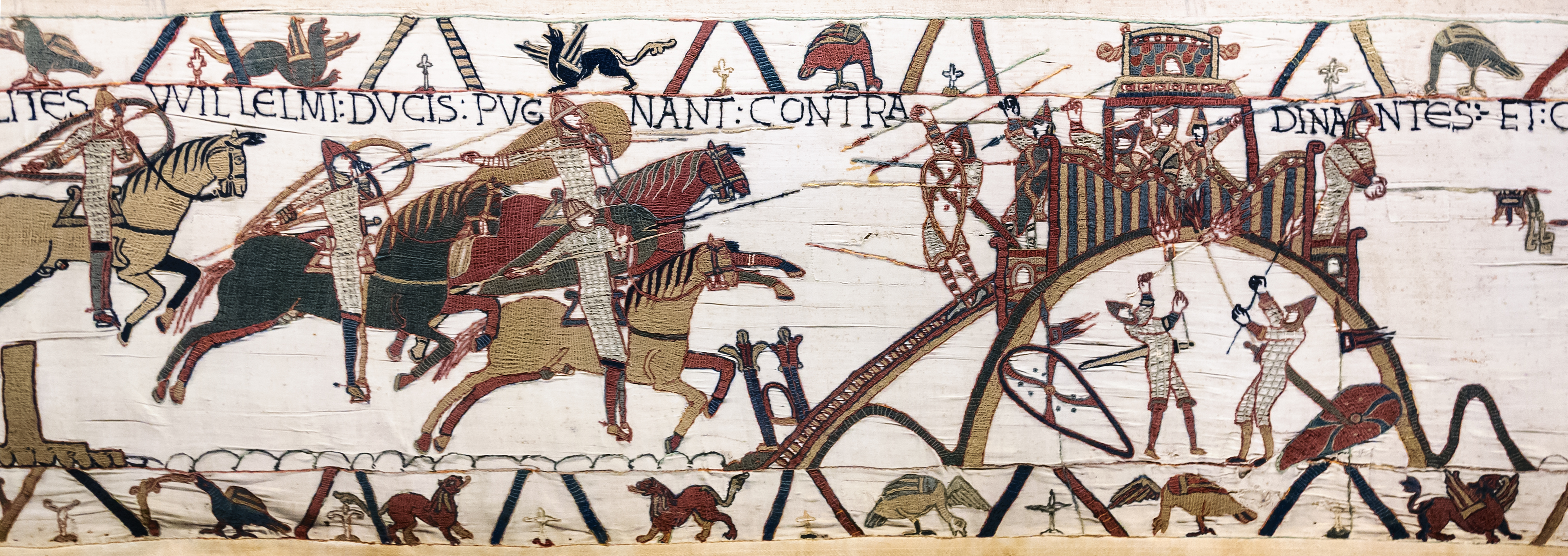 Bayeux Tapestry - Scene 19: siege of Dinan. The soldiers of William, Duke of Normandy attack the motte-and-bailey castle of Dinan. Conan II, Duke of Brittany surrenders and gives the keys to Dinan via a lance.